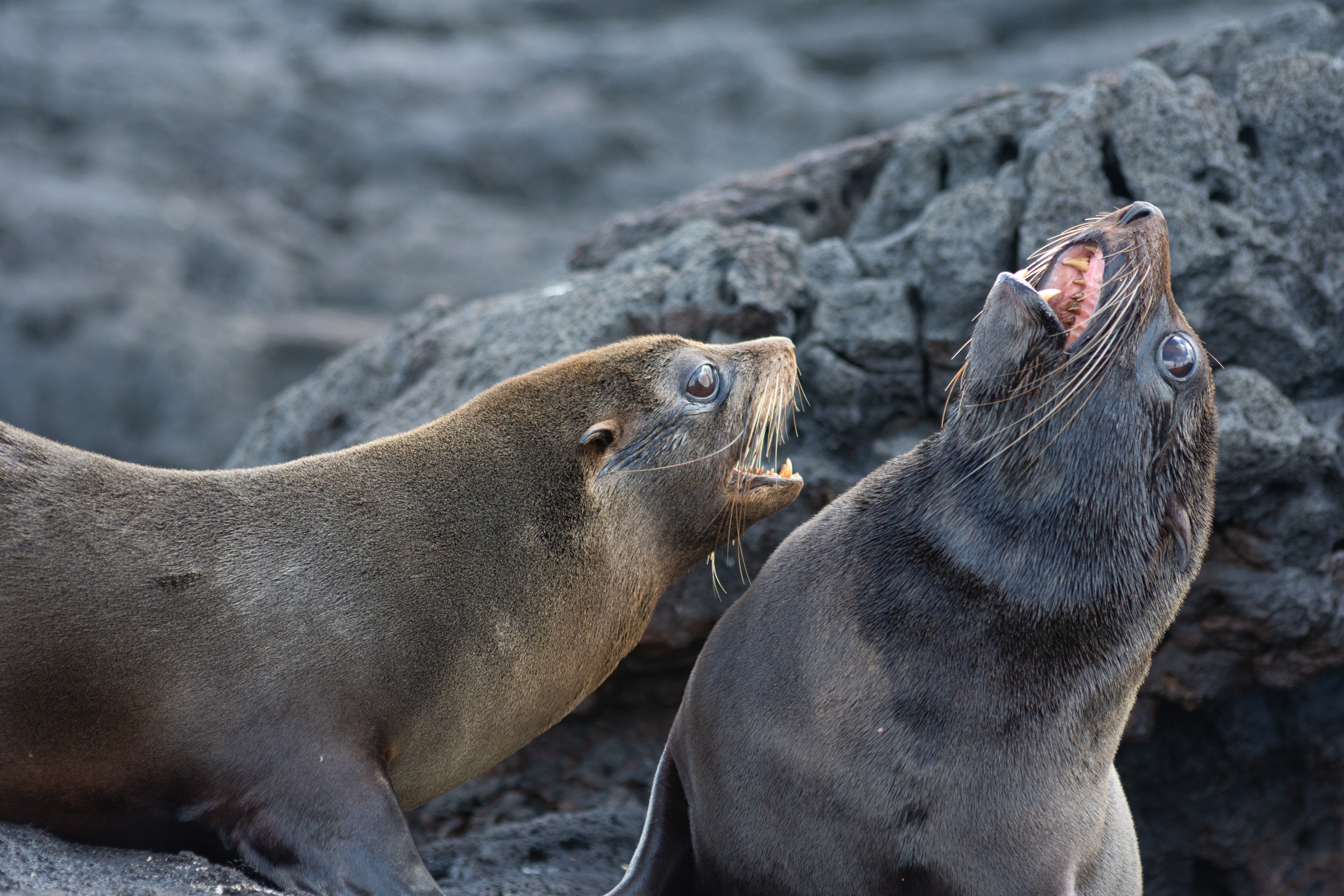 Arctocephalus galapagoensis